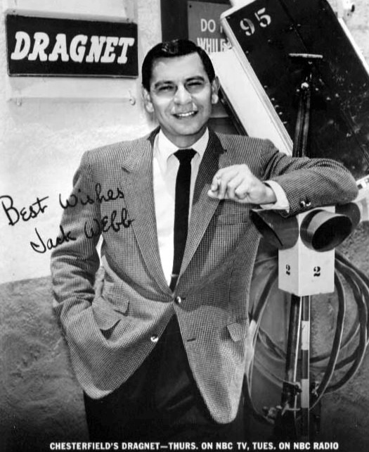 Promotional card or photo picturing Jack Webb on the television show's set for the Dragnet radio and television shows. The autograph is a facsimile.